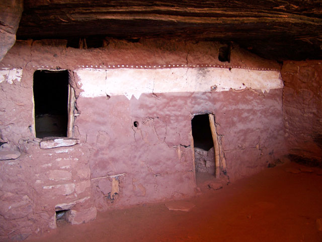 The interior alleyway at Moonhouse ruin in southeast Utah.